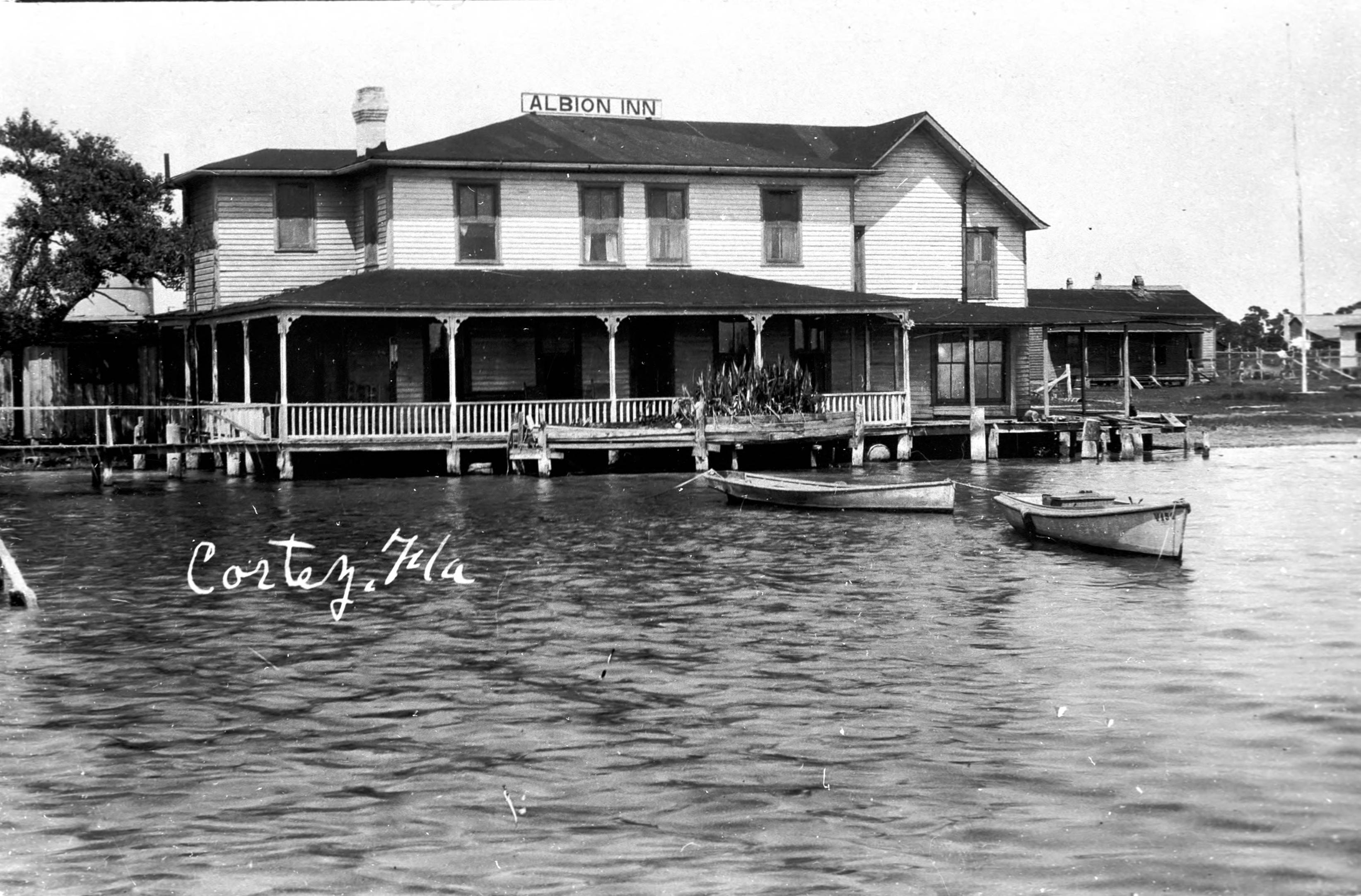 The Albion Inn hotel and Burton Store, directly on the Cortez waterfront, with fishing boats tied in front sometime in the early 1900s.